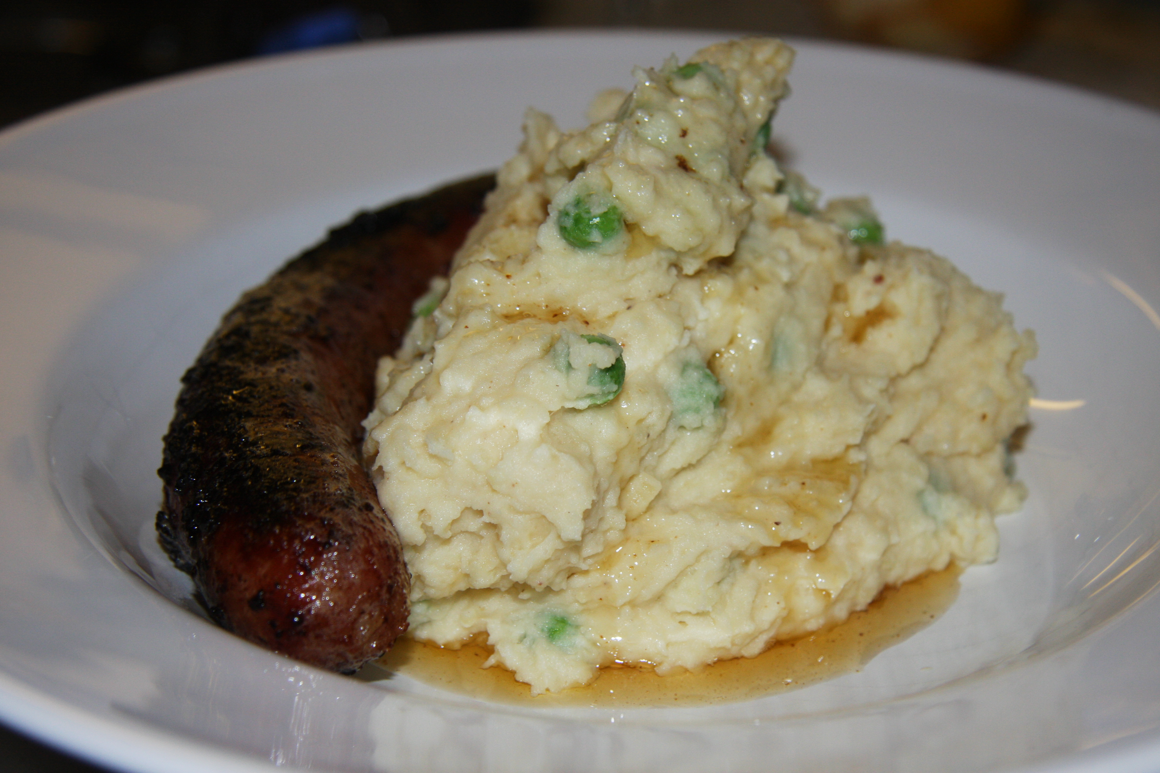 A Swedish lard-skin sausage served with mashed potatoes with green peas.